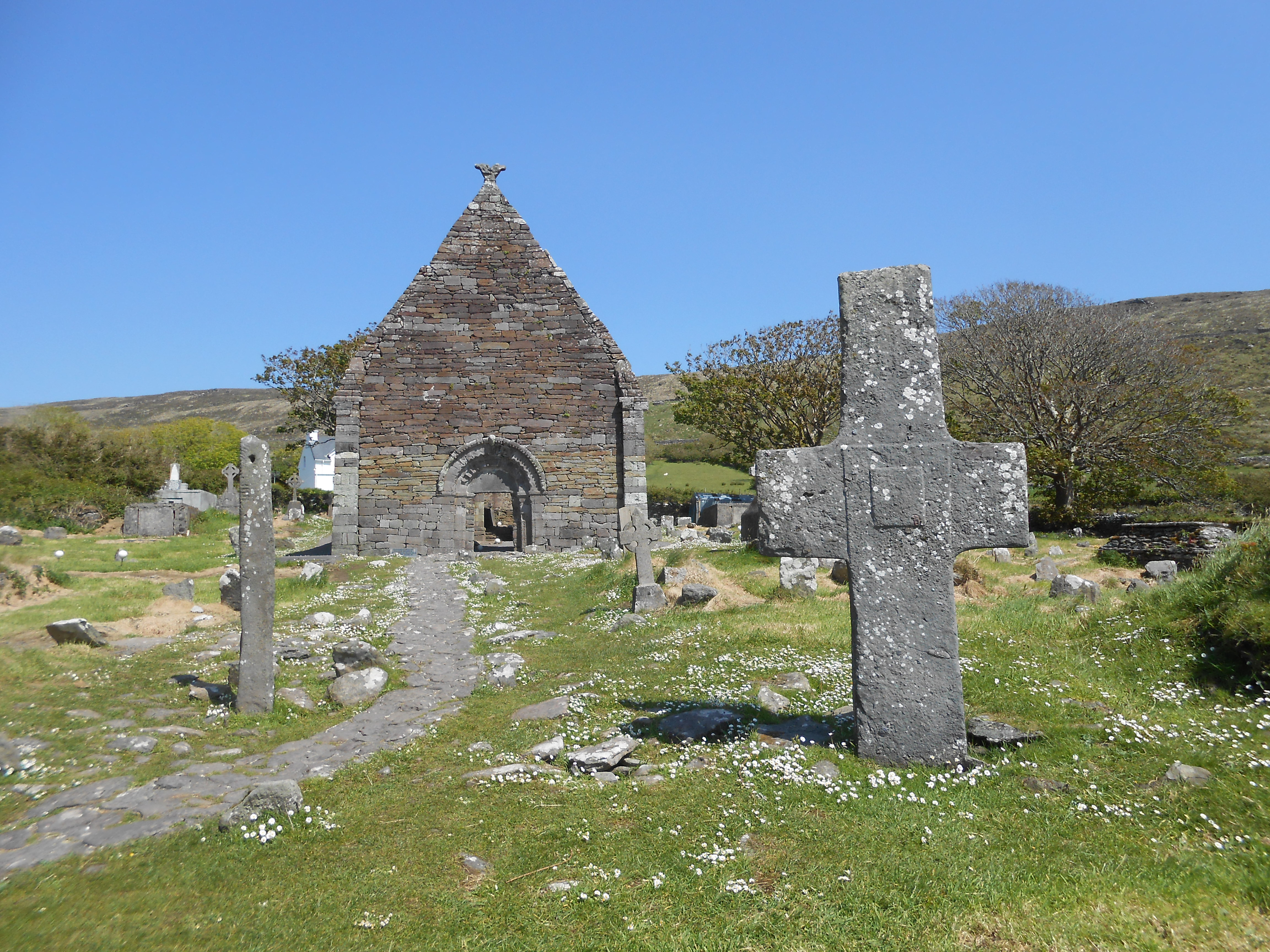 View up to the church with the cross and ogham stone